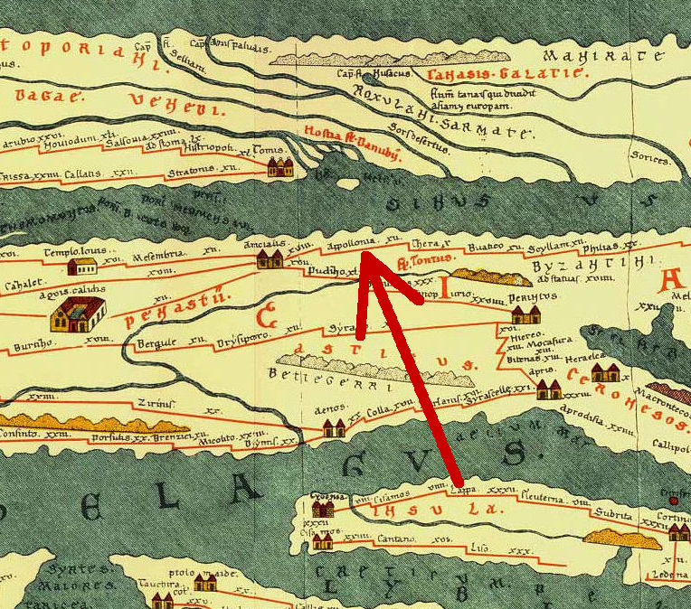 Cutout from Tabula Peutingeriana, 1-4th century CE. Facsimile edition by Conradi Millieri, 1887/1888; the red arrow shows Tabula Peutingeriana places in modern Bulgaria; on the map: Appollonia ; in modern Bulgaria: city of Sozopol